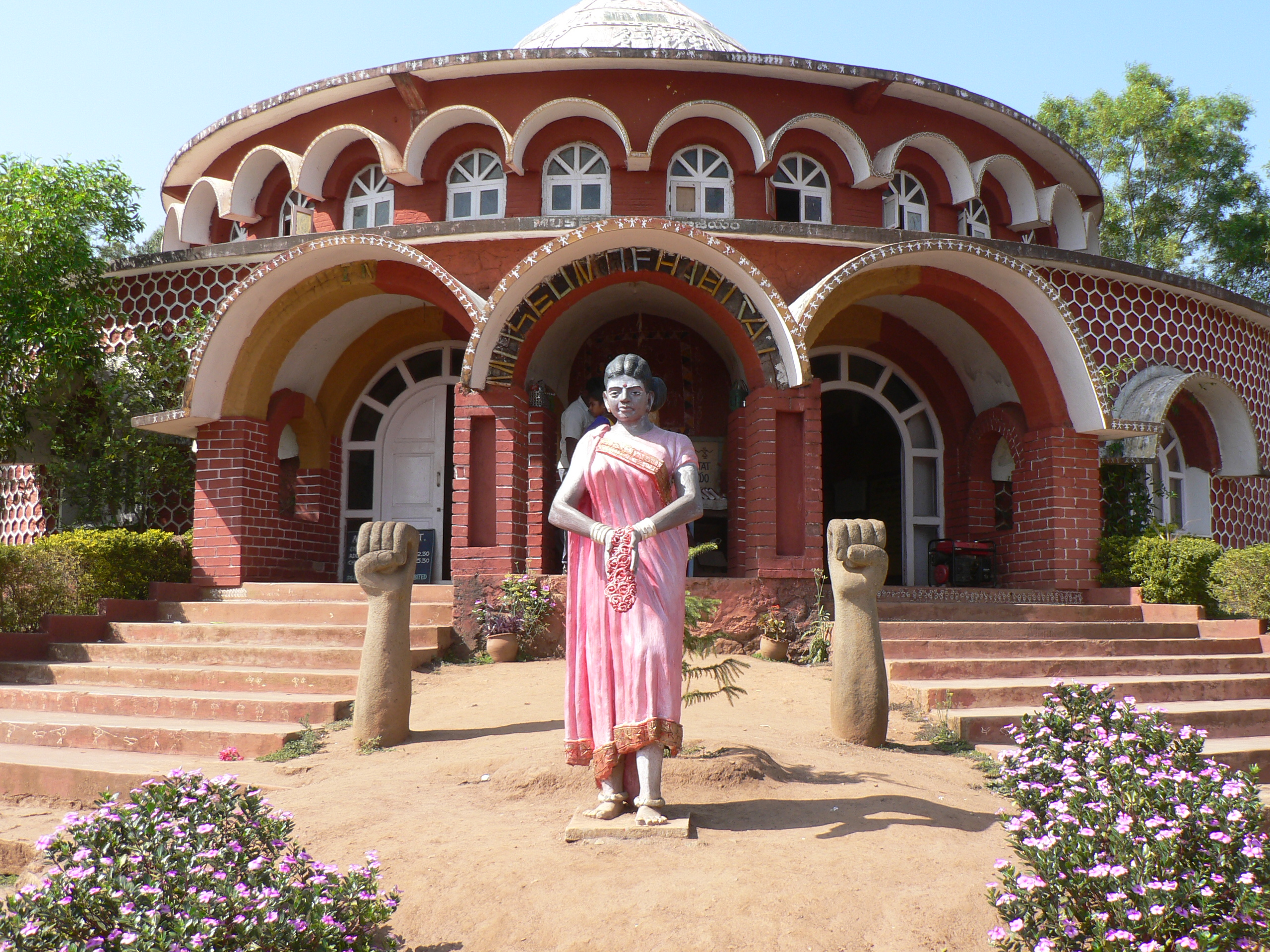 Tribal Museum at Araku Valley, Andhra Pradesh